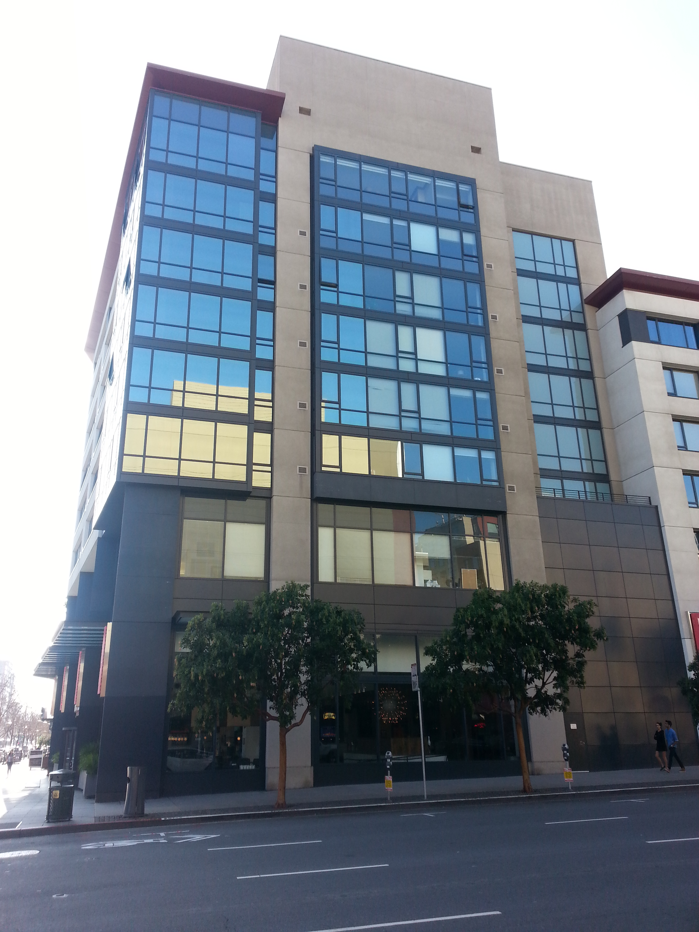 California Institute for Regenerative Medicine headquarters